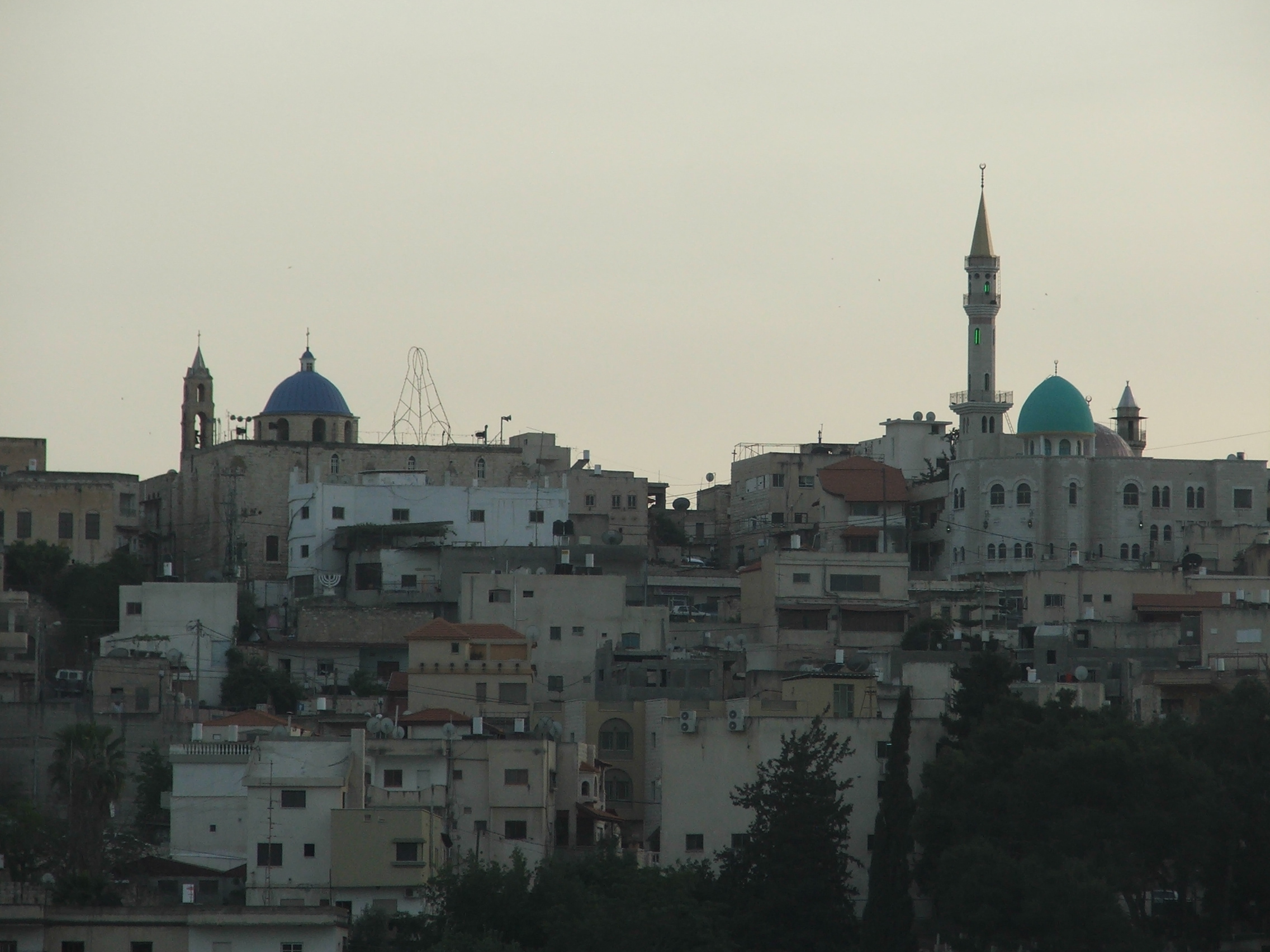 Holy Places, Religion in Israel